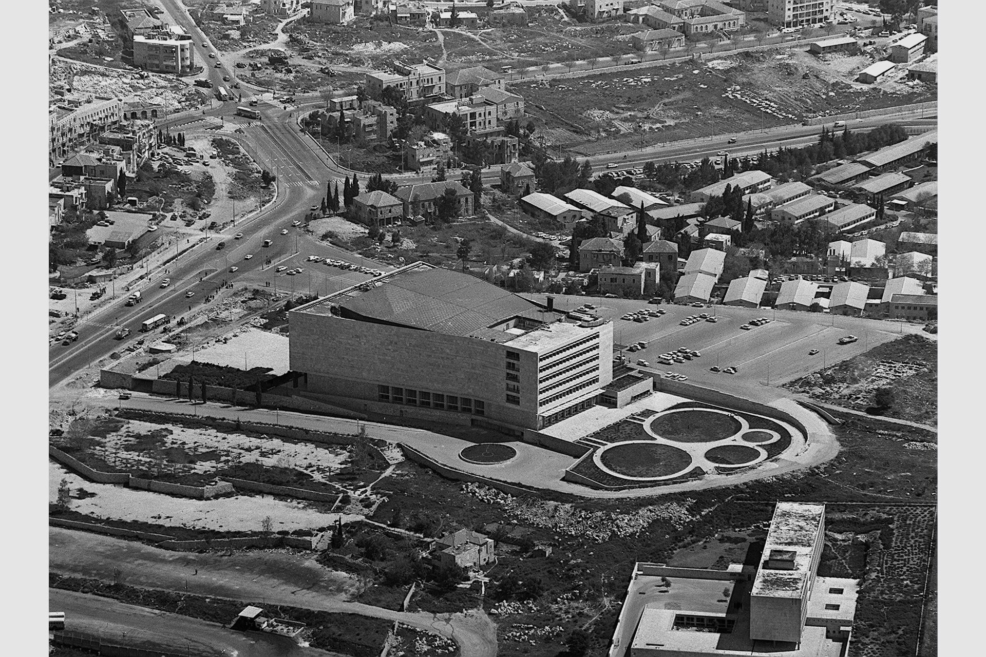 An aerial picture of the Sheikh Badr neighbourhood (top half) and the Jerusalem Convention Center (Binyenei HaUma) shortly after completion, circa 1960. At the time, the Arab Sheikh Badr neighbourhood was used as the head office of the state of Israel Ministry of Foreign Affairs. In the 2000's the remaining houses of Sheikh Badr were completely demolished and a new housing development, Mishkenot Ha'uma, built in its place.